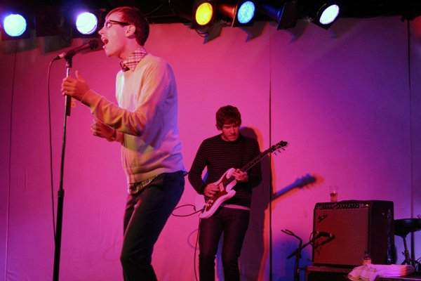 21st July 2007 The Corner Hotel Melbourne, Australia